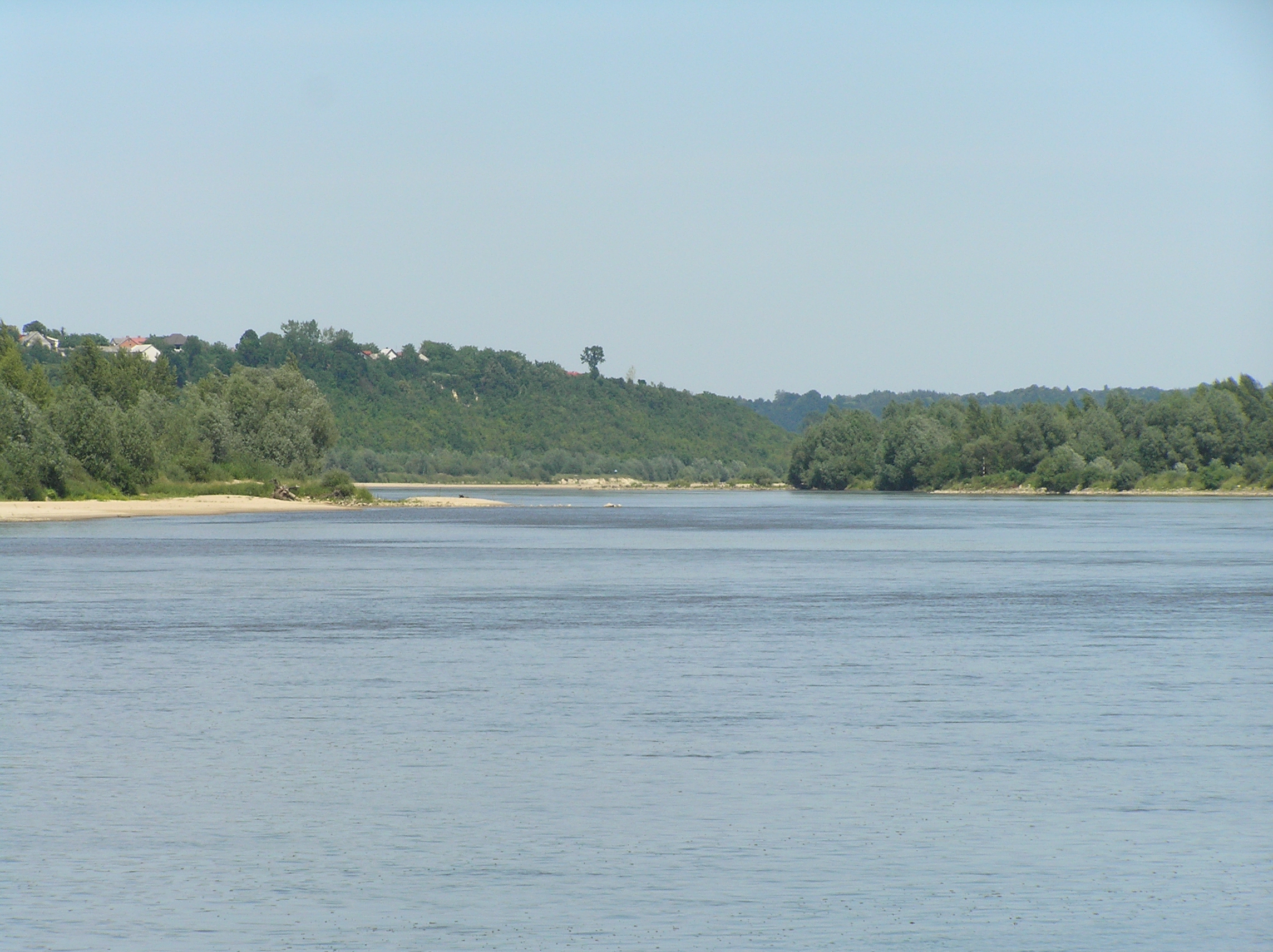 The Vistula River. A view from Kazimierz Dolny.